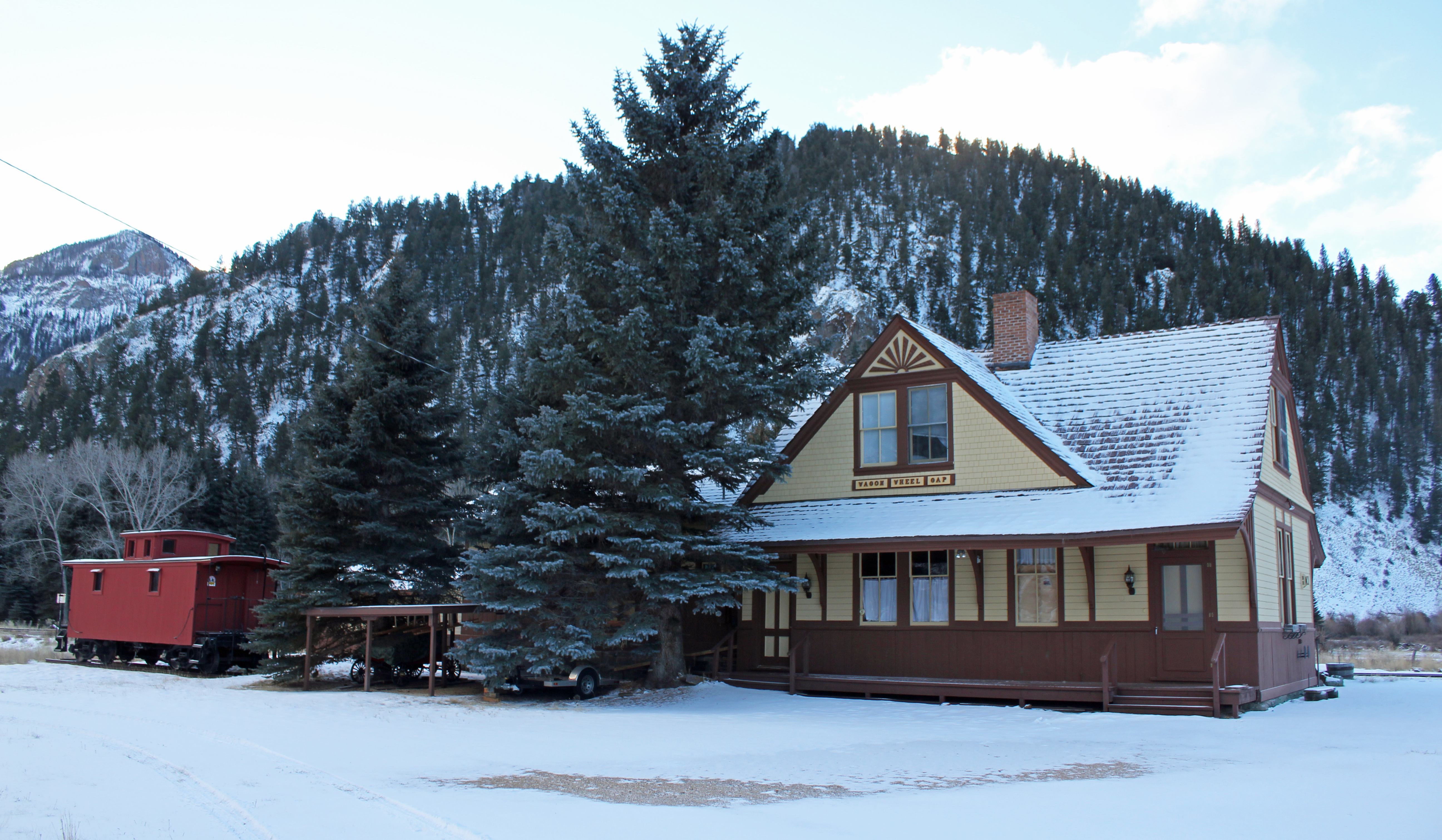 The Wagon Wheel Gap Railroad Station, located along Colorado State Highway 149 at Wagon Wheel Gap, in Mineral County, Colorado. The station was built by the Denver and Rio Grande Railroad and is now listed on the National Register of Historic Places.